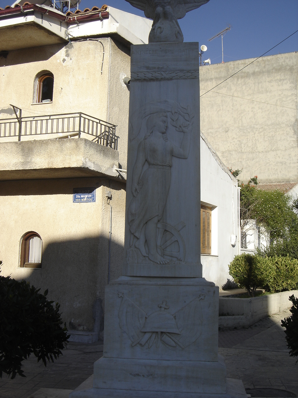 The war memorial in Archalohori.